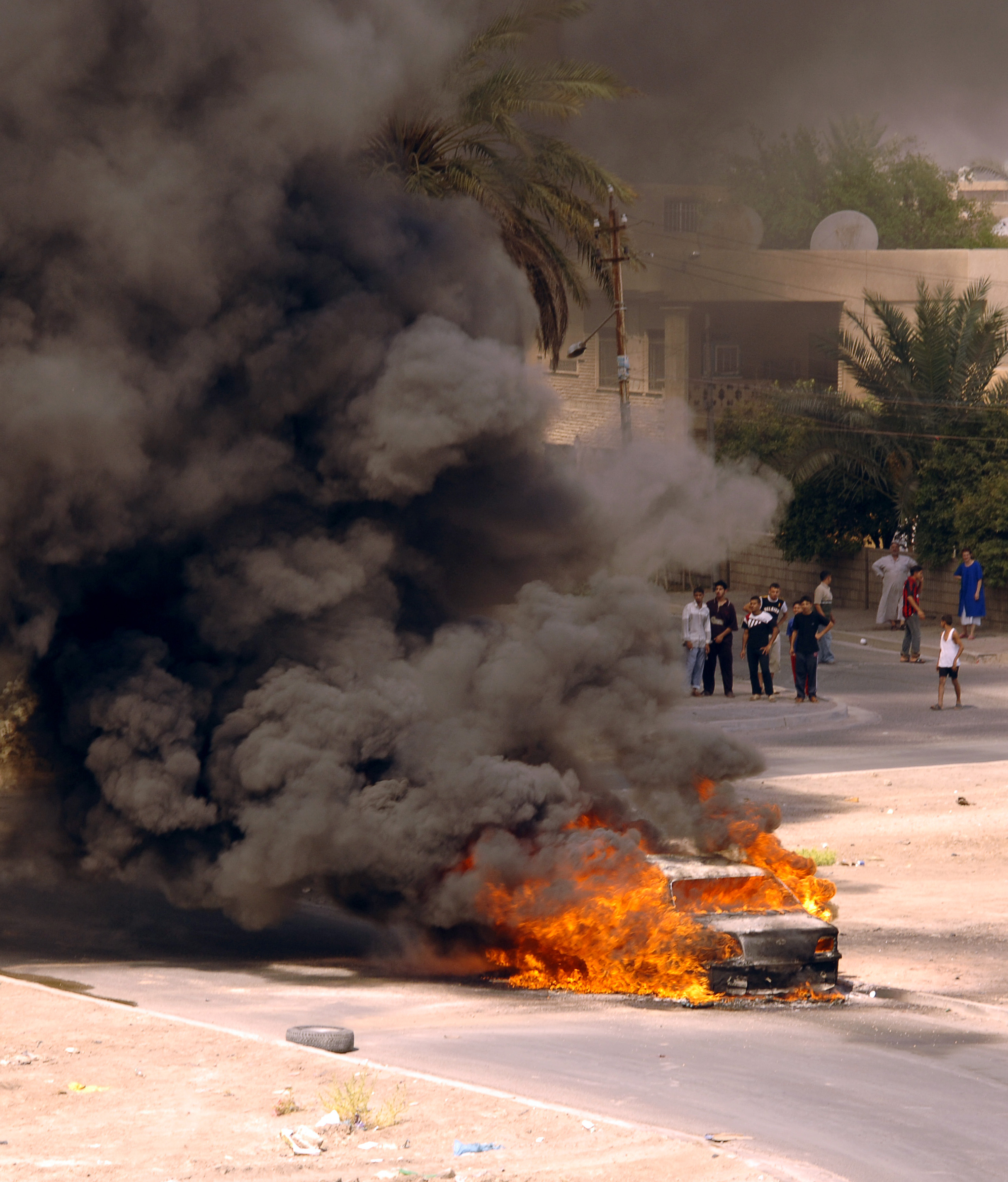 Baghdad, Iraq (Aug. 8, 2006) - An Iraqi vehicle burns in Baghdad after being hit by a mortar that was fired by insurgents. U.S. Navy photo by Mass Communication Specialist 1st Class Keith W. DeVinney (RELEASED)